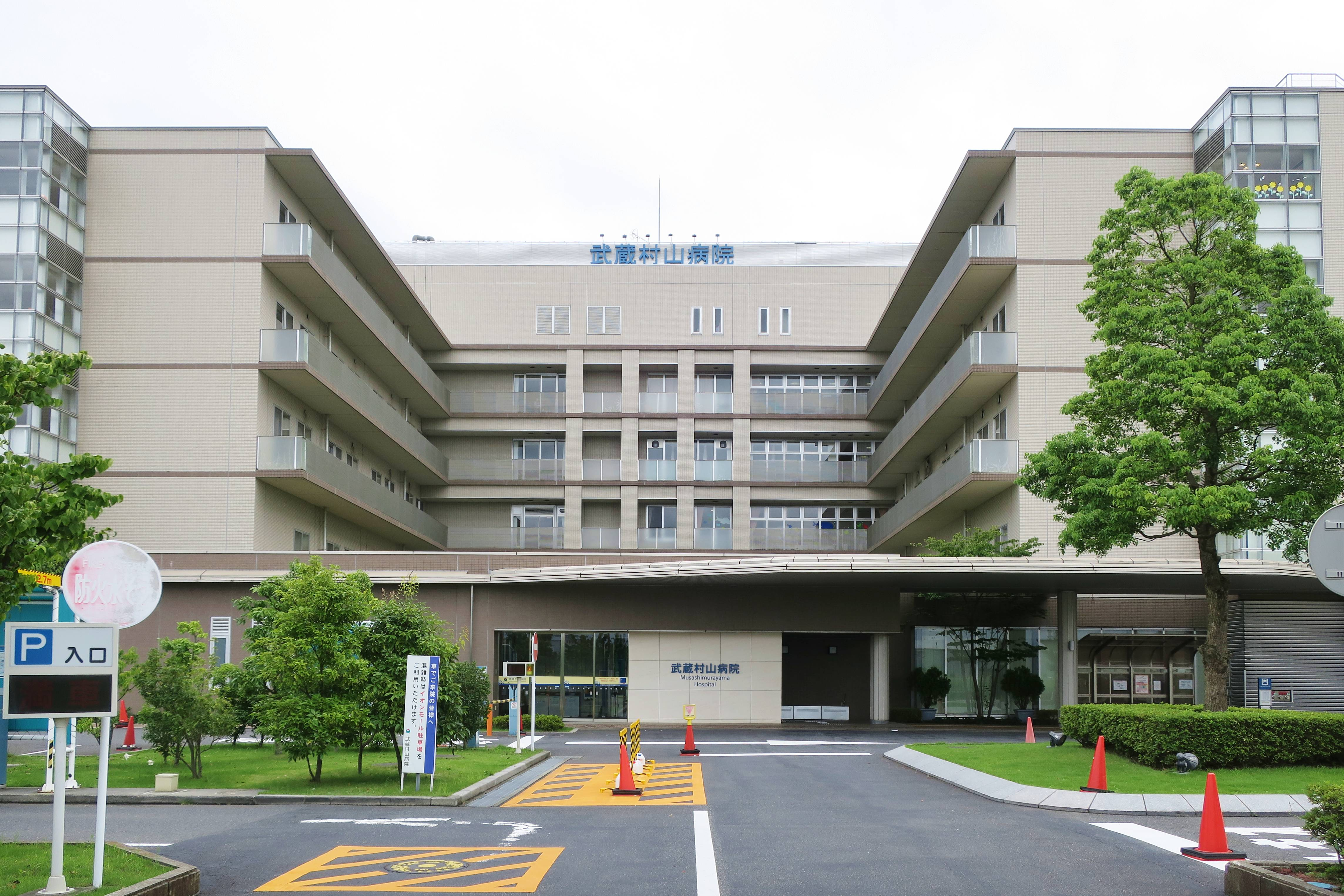 Musashimurayama Hospital (Musashimurayama, Tokyo).